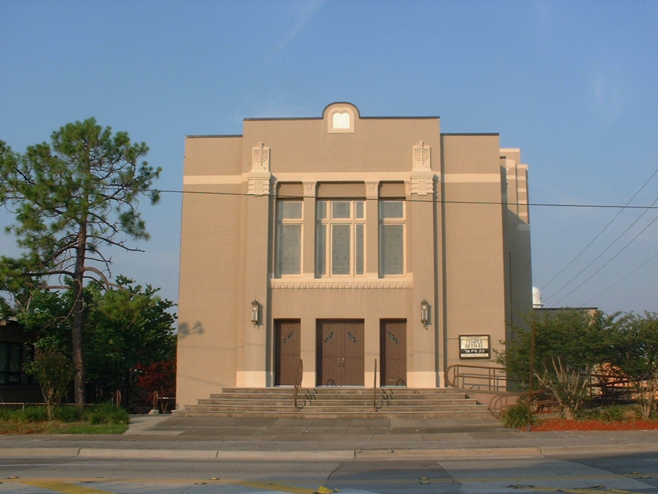 The Temple Beth-El in Pensacola, Florida. Taken by me on 5/28/2005